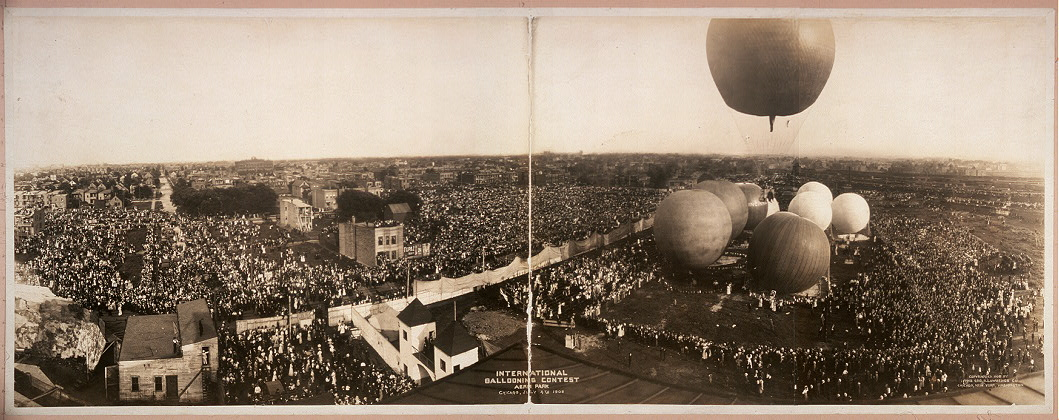 TITLE: International Ballooning Contest, Aero Park, Chicago, July 4th, 1908 CALL NUMBER: LOT 5784 no. 1 (OSF) [P&P] REPRODUCTION NUMBER: LC-USZ62-24415A (b&w film copy neg. of left section) LC-USZ62-24415B (b&w film copy neg. of right section) RIGHTS INFORMATION: No known restrictions on publication. MEDIUM: 1 photographic print : gelatin silver ; 17.5 x 46 in. CREATED/PUBLISHED: 1908. RELATED NAMES: Geo. R. Lawrence Co., copyright claimant. NOTES: H112250 U.S. Copyright Office Copyright claimant's address: Chicago, New York, Washington. Copyright deposit; Geo. R. Lawrence Co.; July 10, 1908. SUBJECTS: Balloon racing. United States--Illinois--Chicago. FORMAT: Panoramic photographs. Gelatin silver prints. PART OF: Panoramic photographs (Library of Congress) REPOSITORY: Library of Congress Prints and Photographs Division Washington, D.C. 20540 USA DIGITAL ID: (digital file from intermediary roll film copy) pan 6a34405 CONTROL #: 2007663969